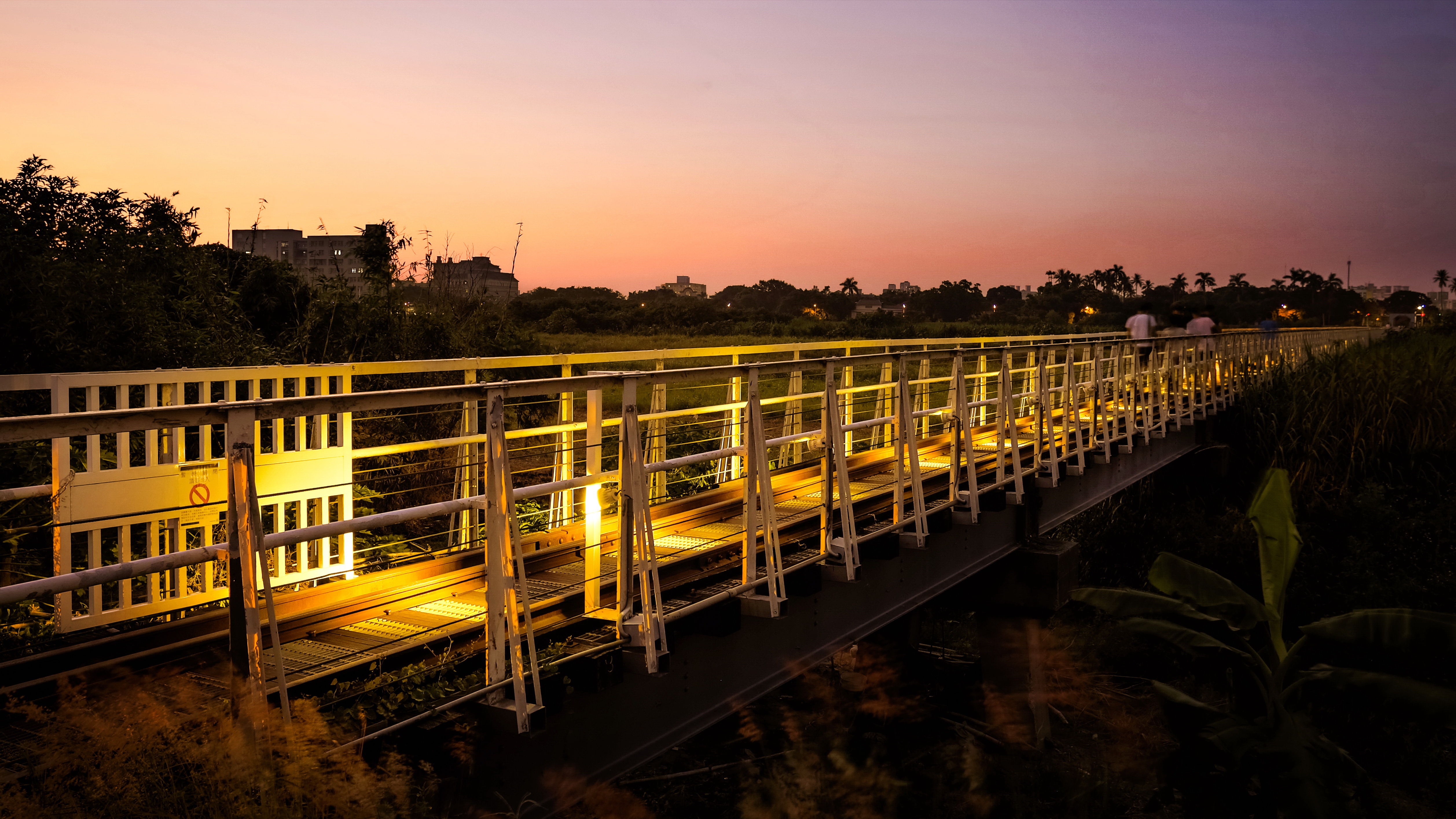 Huwei Steel Bridge, Huwei Township, Yunlin County, Taiwan. 中文（台灣）: 虎尾糖廠鐵橋 （臺灣雲林縣虎尾鎮）